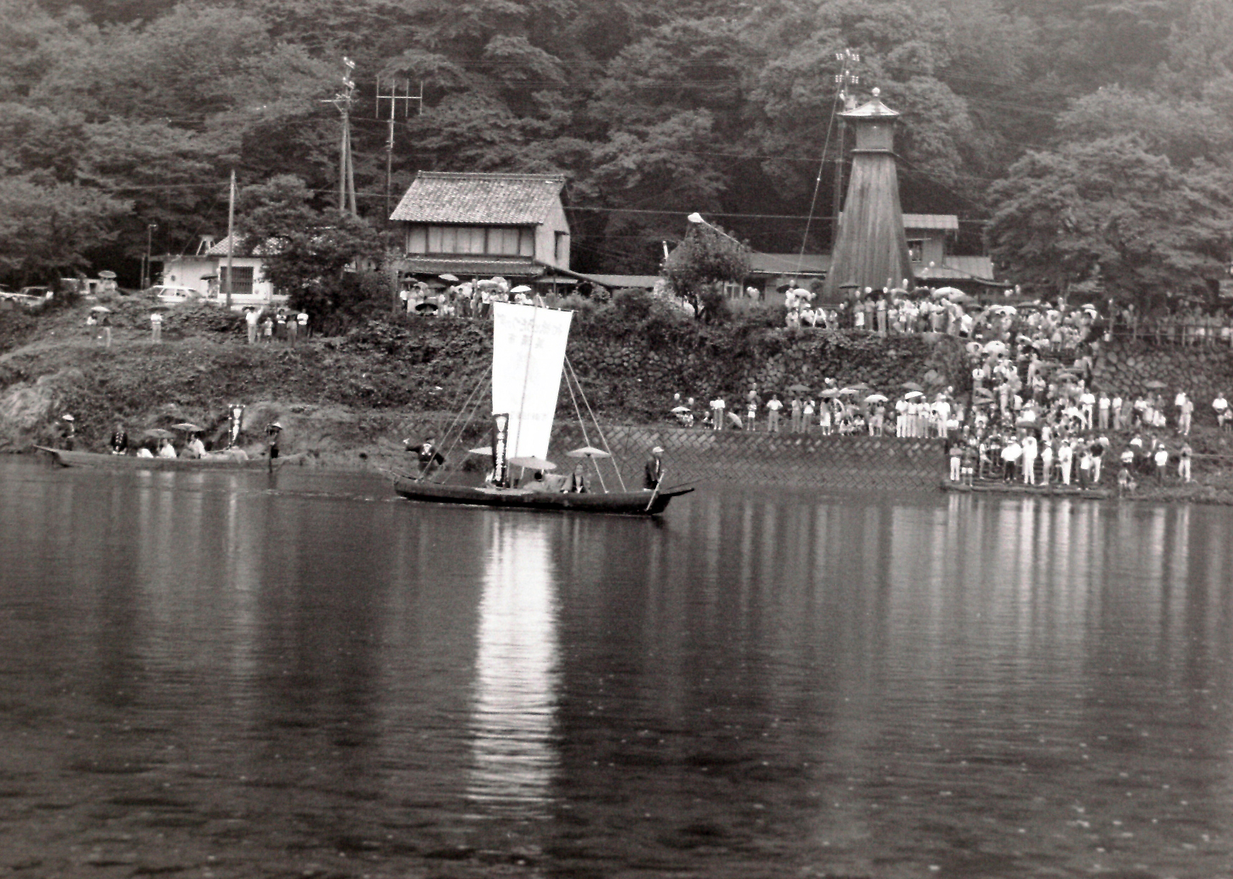 Kozuchi harbor